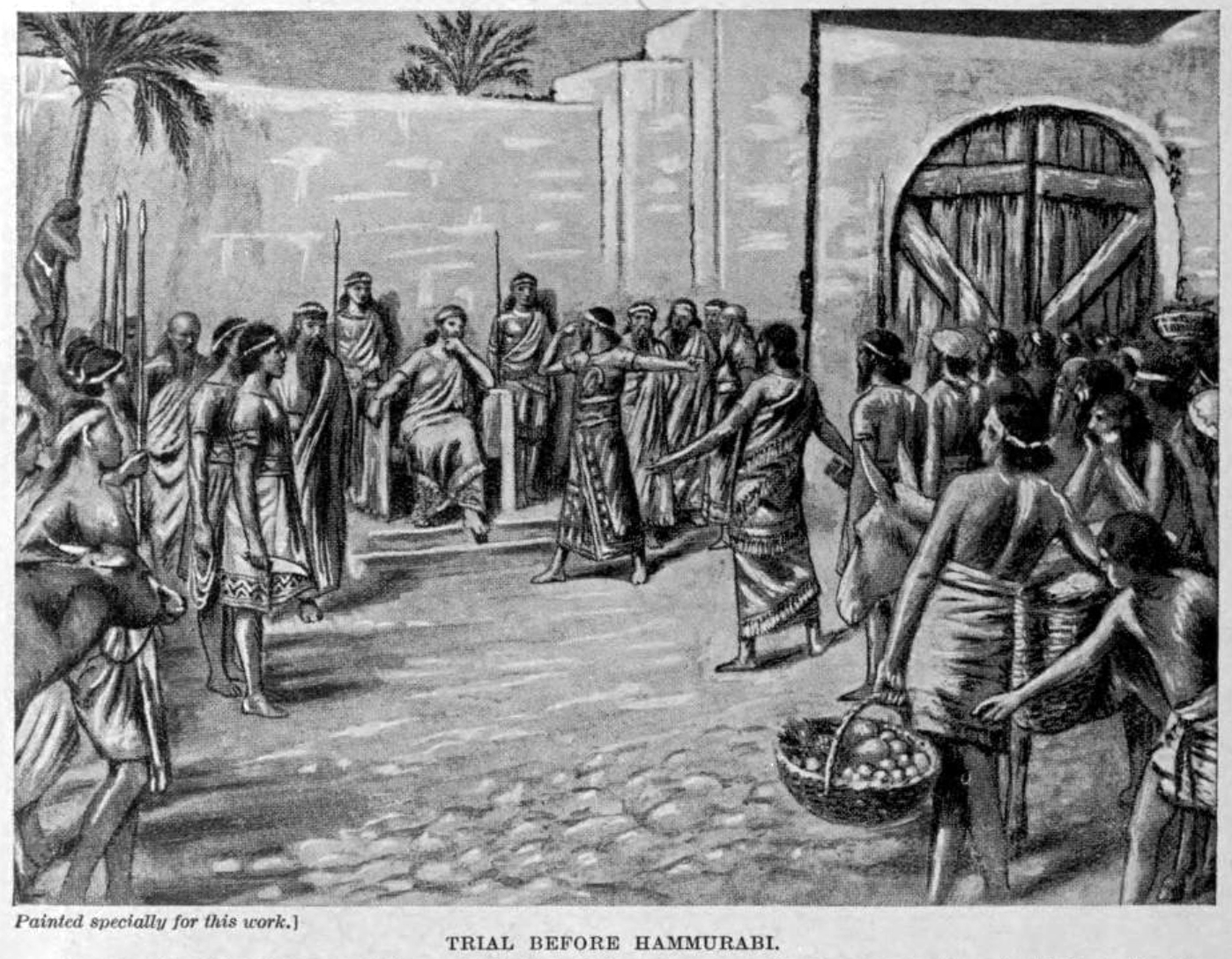 Trial Before Hammurabi